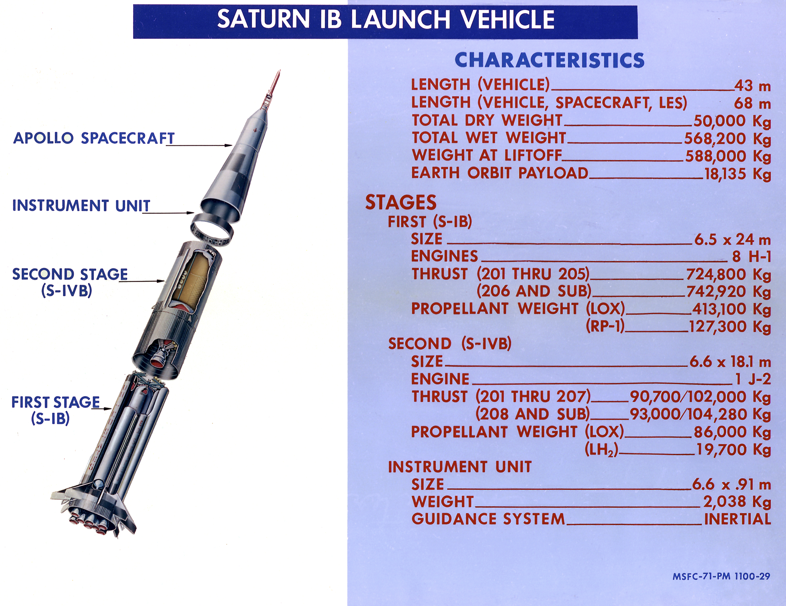 Saturn IB configuration. The Saturn IB and Saturn V carried a 21.7 foot diameter Instrument Unit manufactured by IBM.